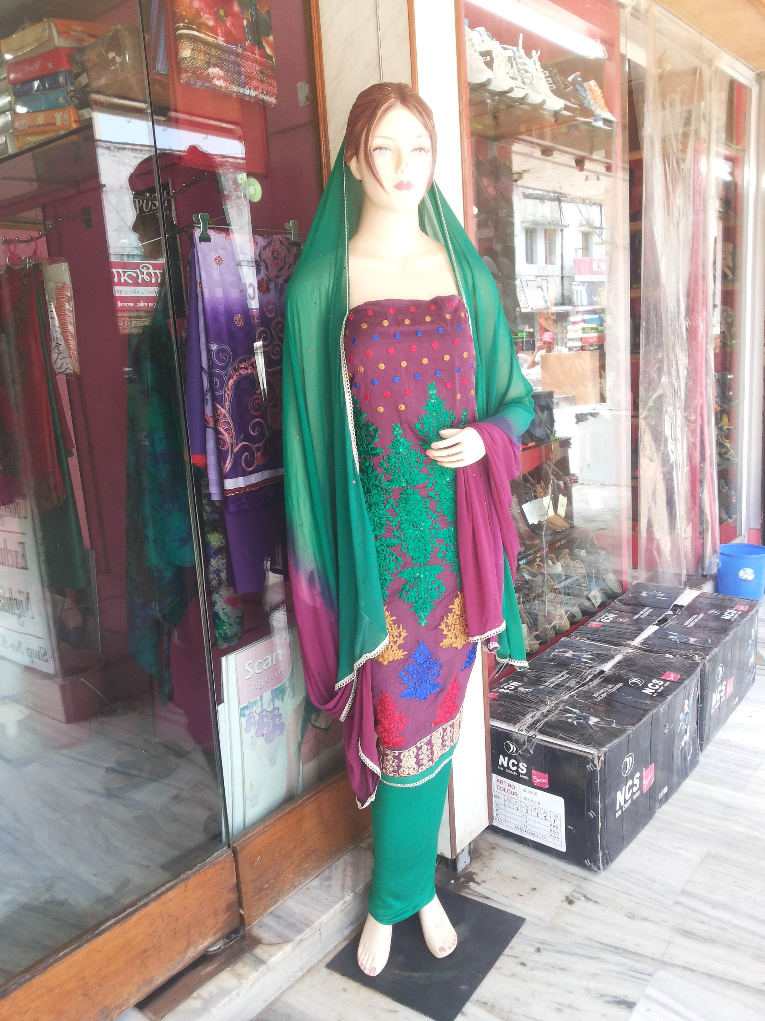 Mannequin outside a shop in north India